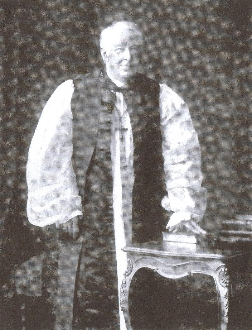 Photograph of John Dowden as Bishop of Edinburgh